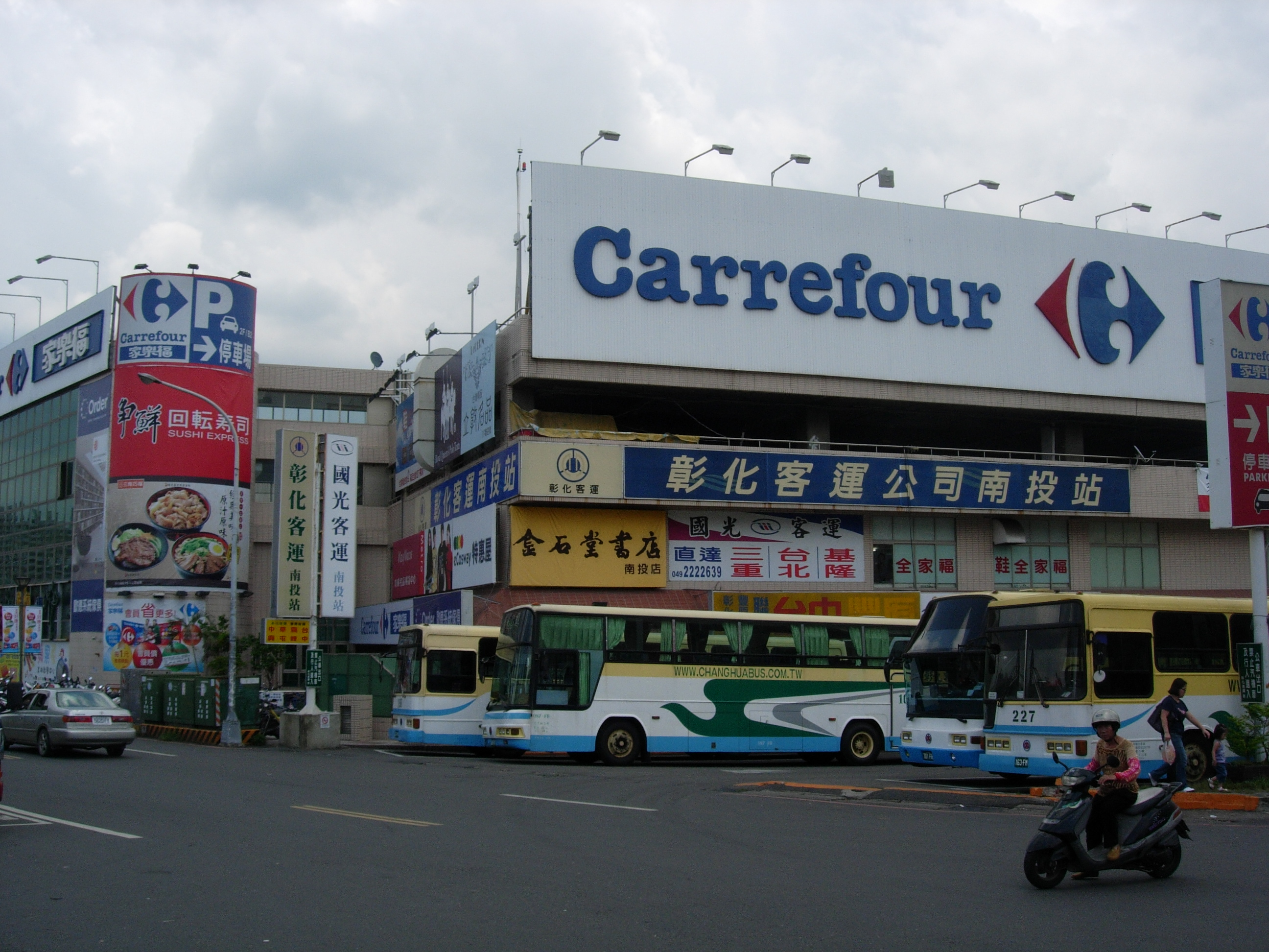 Changhua Bus Nantou Station中文（台灣）: 彰化客運南投站。